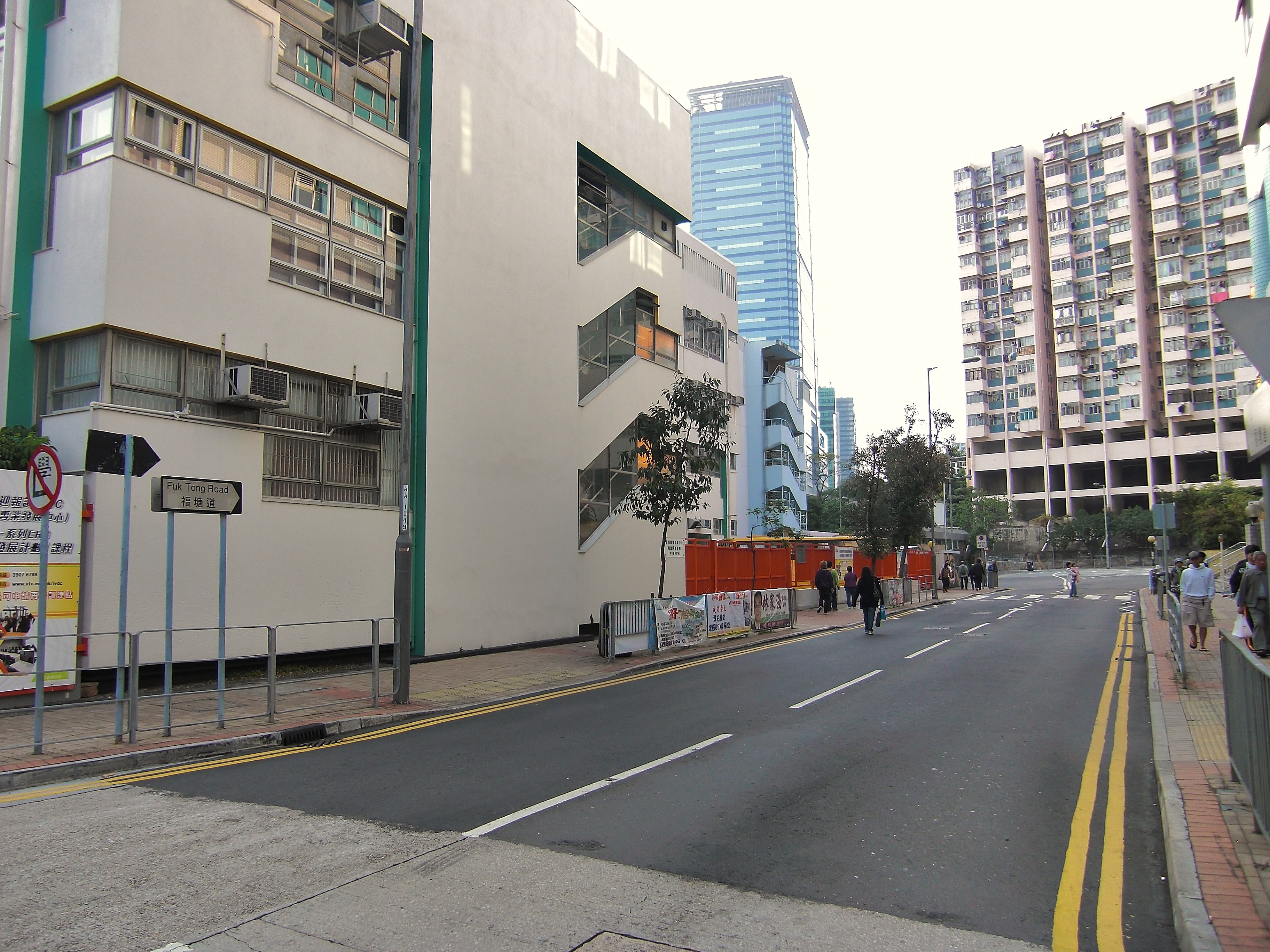 Looking towards the west from Tsui Ping Road, Fok Tong Road is seen.